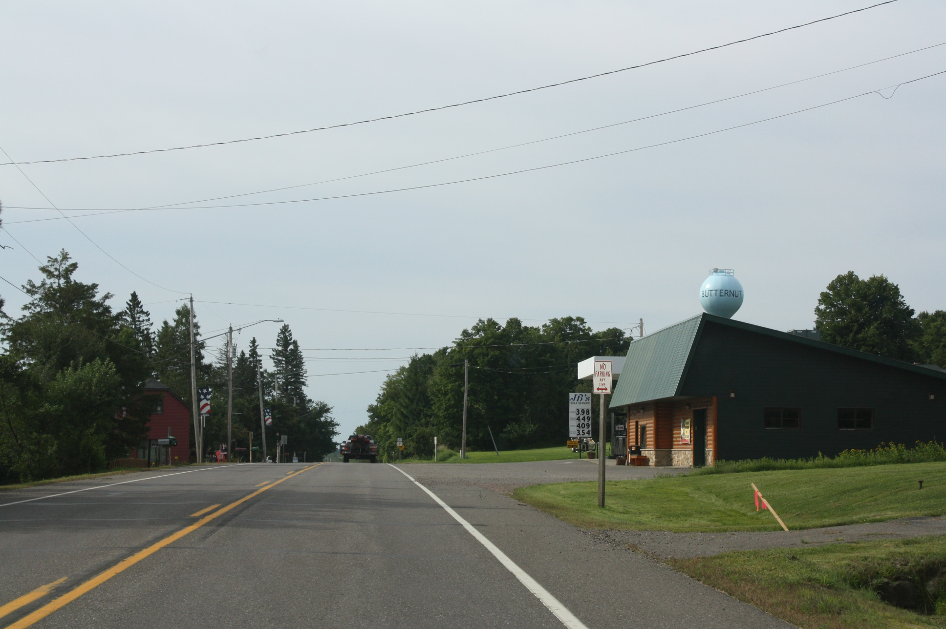 Looking south at Butternut, Wisconsin on Wisconsin Highway 13.